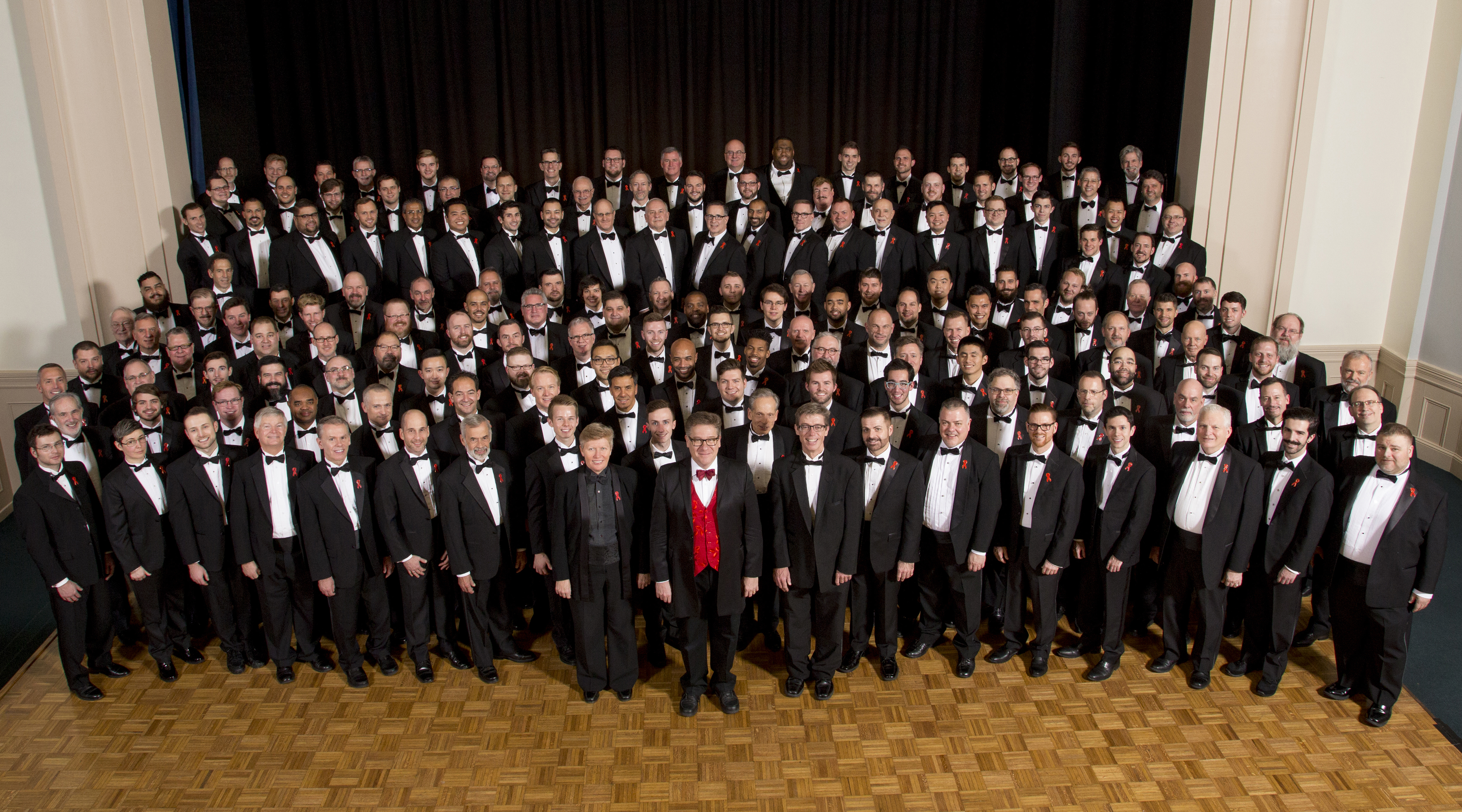 Formal photograph of the Boston Gay Men's Chorus (2015-2016)